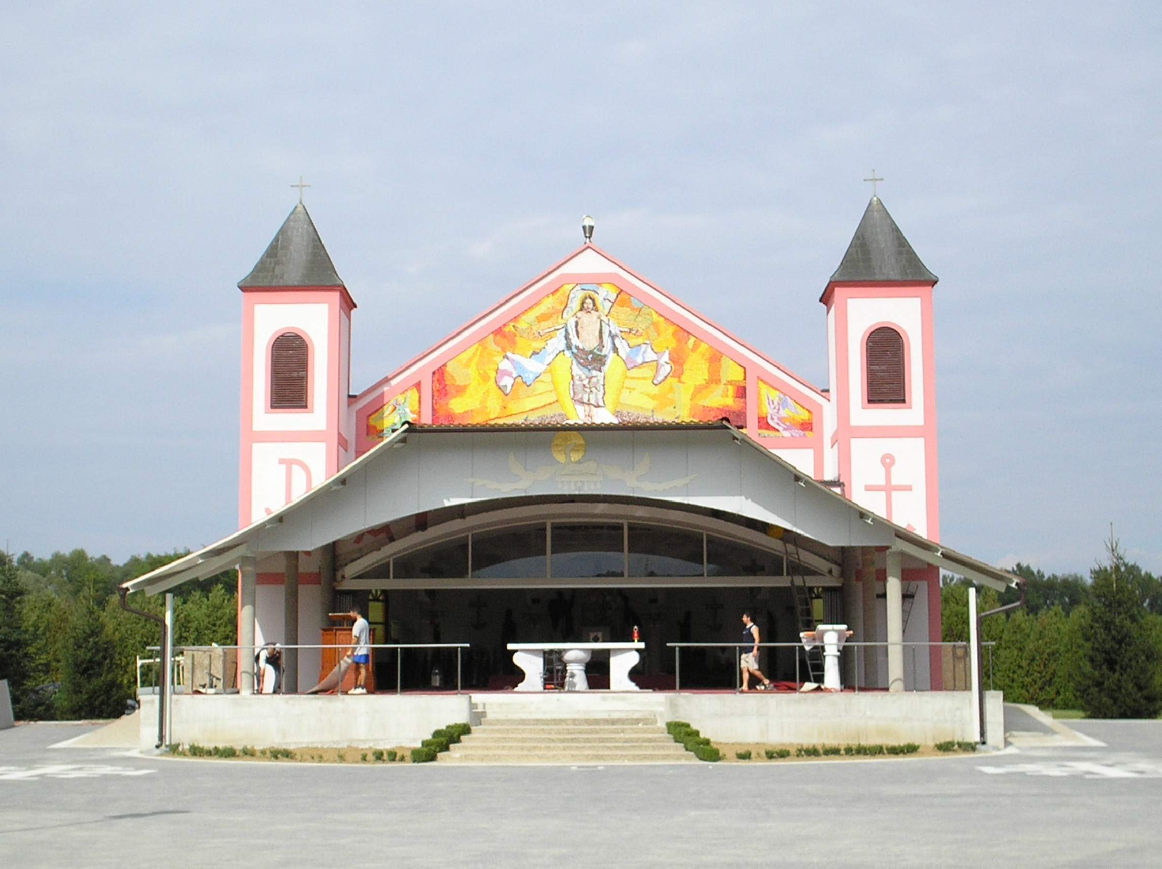 The chapel of the Holy Blood in the city of Ludbreg, Croatia